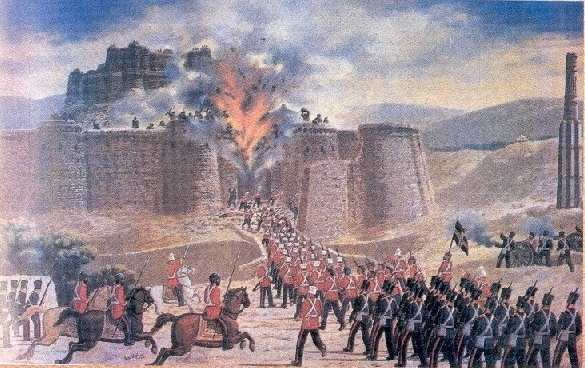 British troops storm Ghuznee, after the Kabul Gate is blown up by the Bengal Sappers & Miners